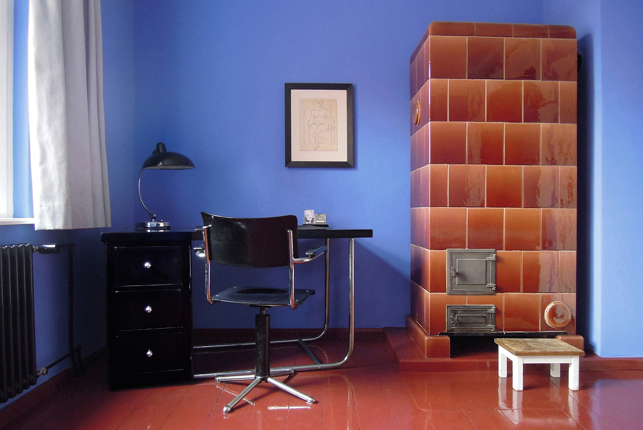 The photograph shows a detail of the interior design of "Tautes Heim", a private accommodation that has been completely restored true to the original and furnished in the style of the 1920s by Katrin Lesser and Ben Buschfeld. The house is part of the UNESCO World Heritage "Hufeisensiedlung" estate in Berlin-Britz and was awarded with the Europa Nostra Award 2013. For details about booking or to contact the owners please This project did not receive any public grants, renting the place helps to refinance it. In case of usage please quote the URL, i.e. "